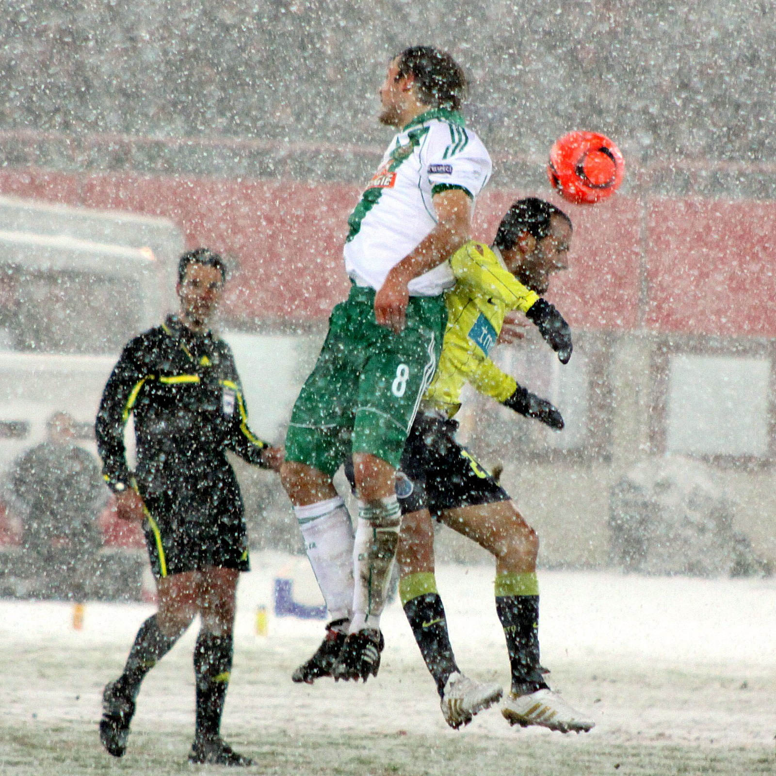 2010–11 UEFA Europa League - SK Rapid Wien vs. F.C. Porto 1:3, Ernst-Happel-Stadion (Vienna) – Markus Heikkinen (left) and Rúben Micael.